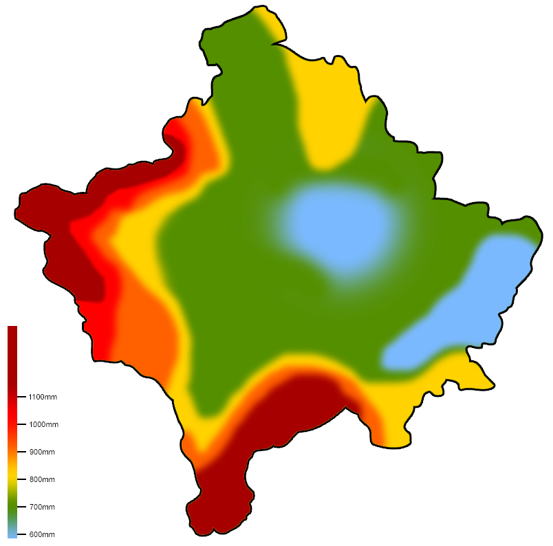 This map shows the precipitation values around Kosovo.